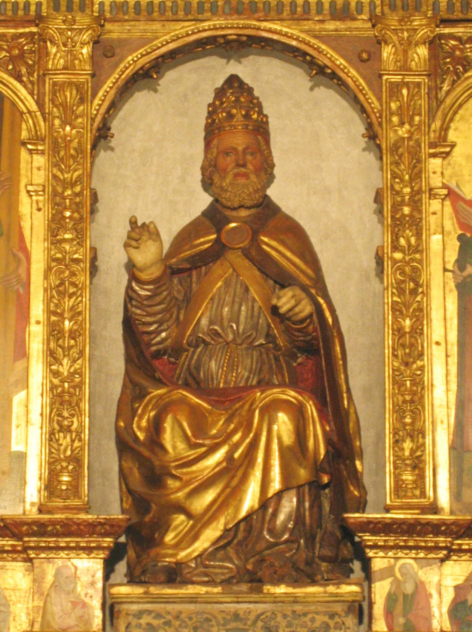 "St. Peter wooden altarpiece" (detail) Pietro Bussolo - wooden statue of St. Peter Polychrome and gilded wood XV century St. Peter church in Desenzano al Serio (Albino - BG - ITALY)